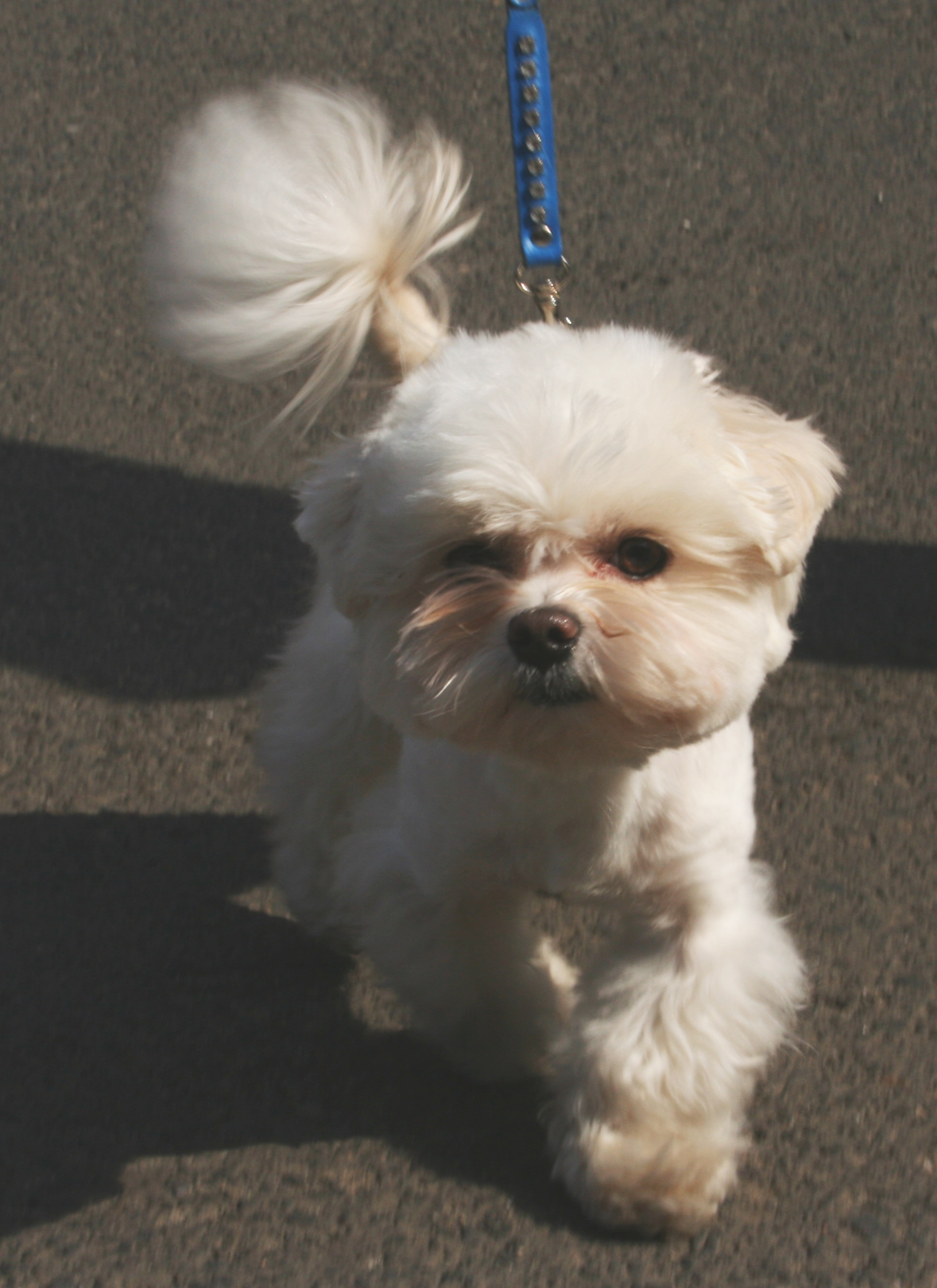 Maltese during International show of dogs in Katowice - Spodek, Poland